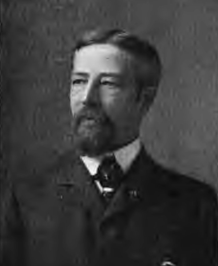 Photograph of George F Baer (1842-1914), lawyer and president of the Reading Railroad; also president of Franklin & Marshall College.